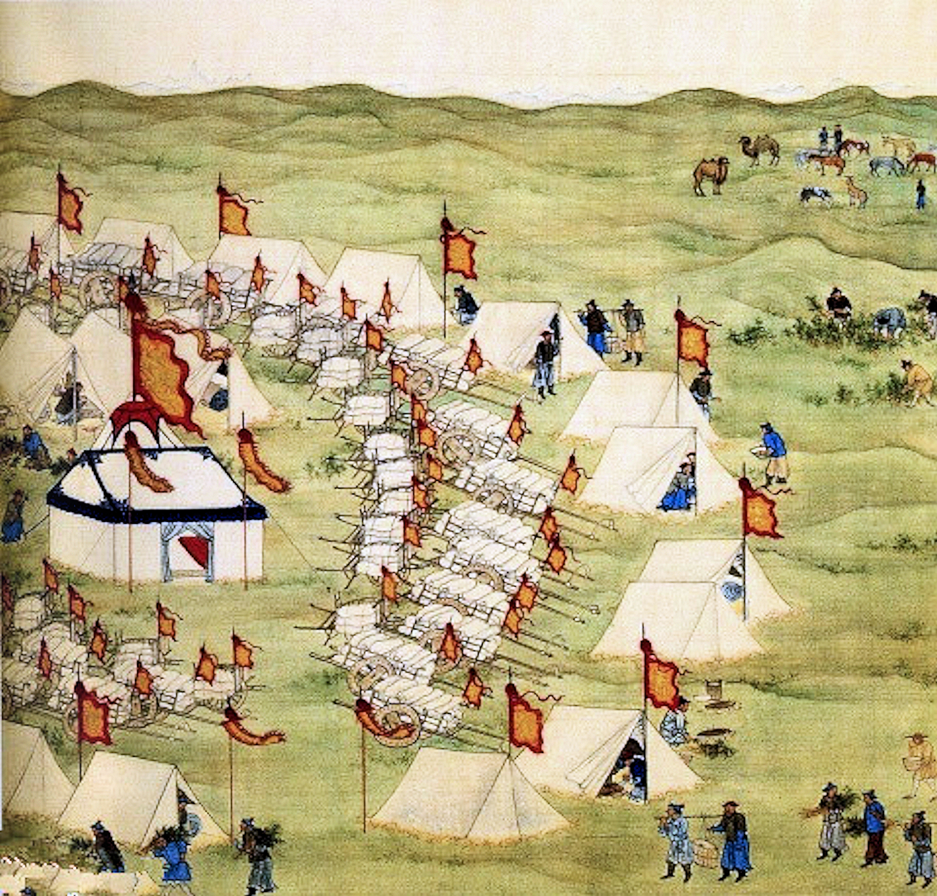 A fragment of a scroll painting depicting the Emperor's encampment on the Kherlen river en route to attack the Dzungar Khan, Galdan Boshugtu, in 1696.